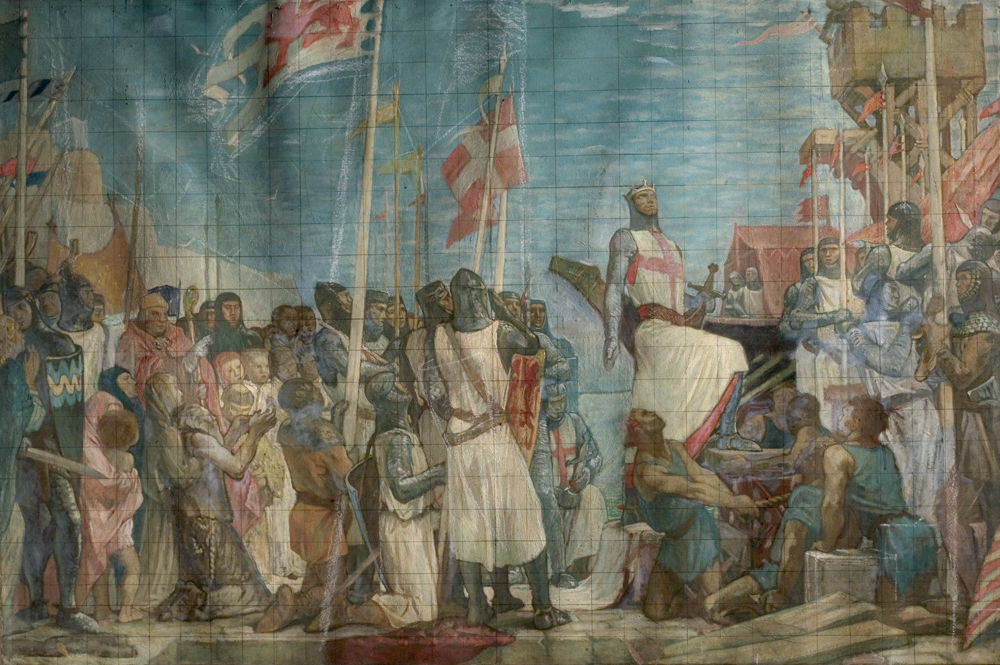 Philpot, Glyn Warren; Richard the Lionheart Embarks on the Third Crusade; Nottingham City Museums and Galleries